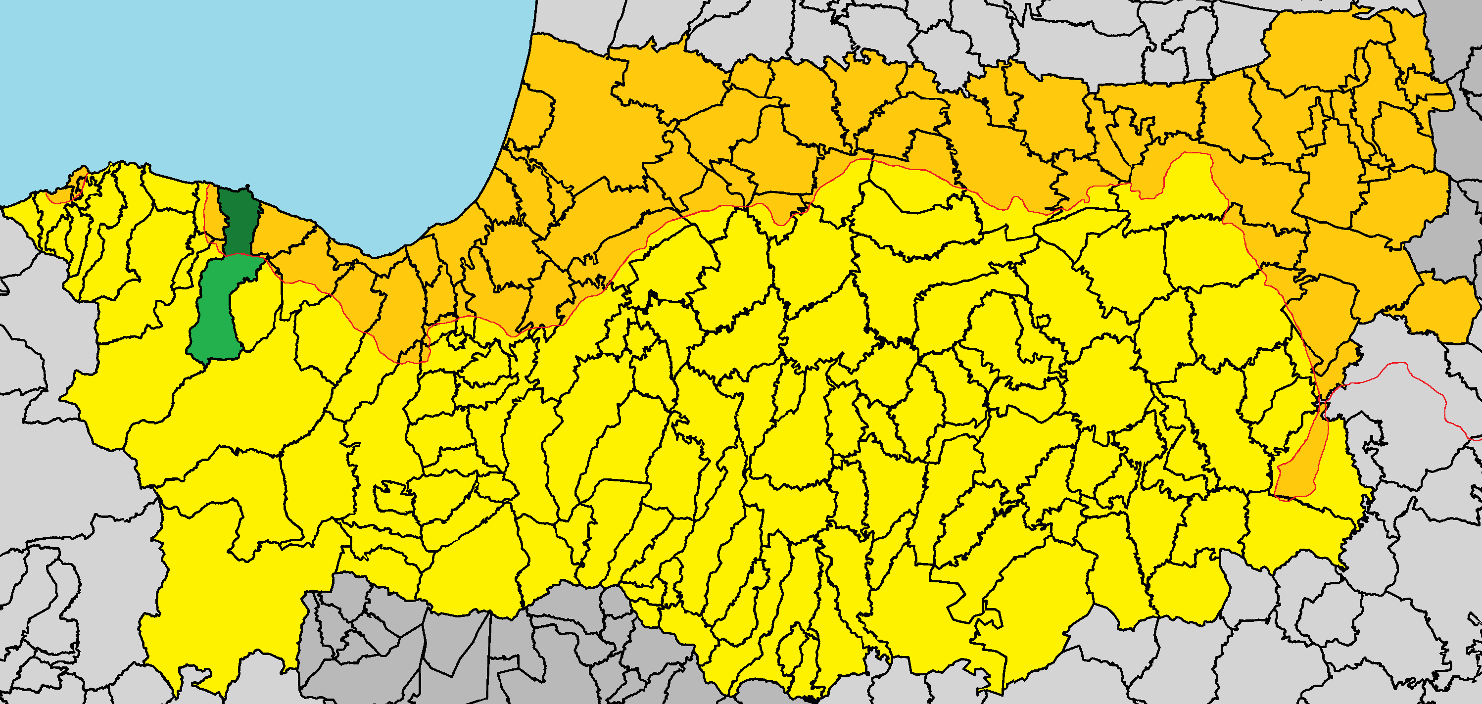 Xerovounos in Nicosia District (de jure).